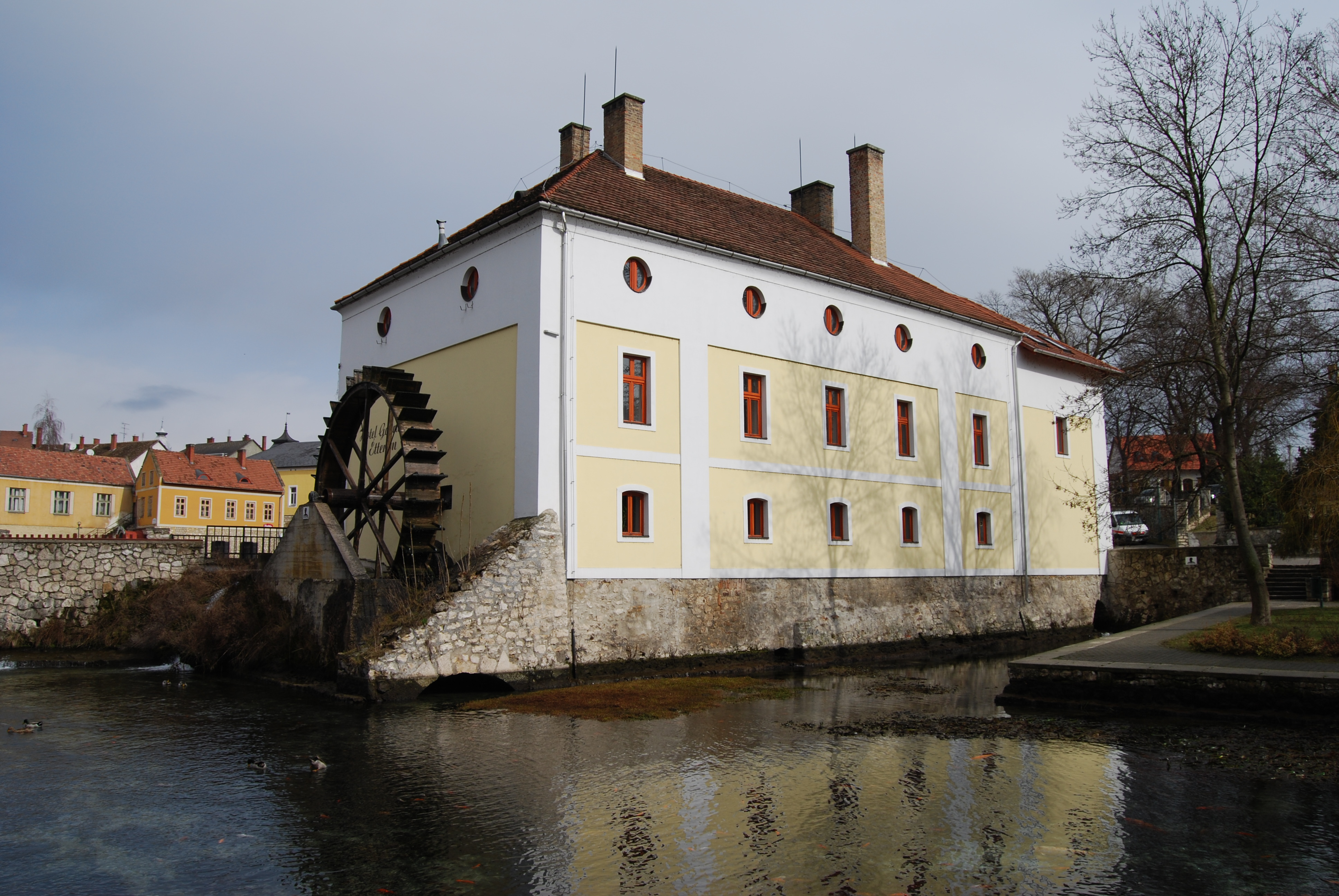 Tapolca town near Balaton lake, Hungary. Sight to the small pond near towncenter.